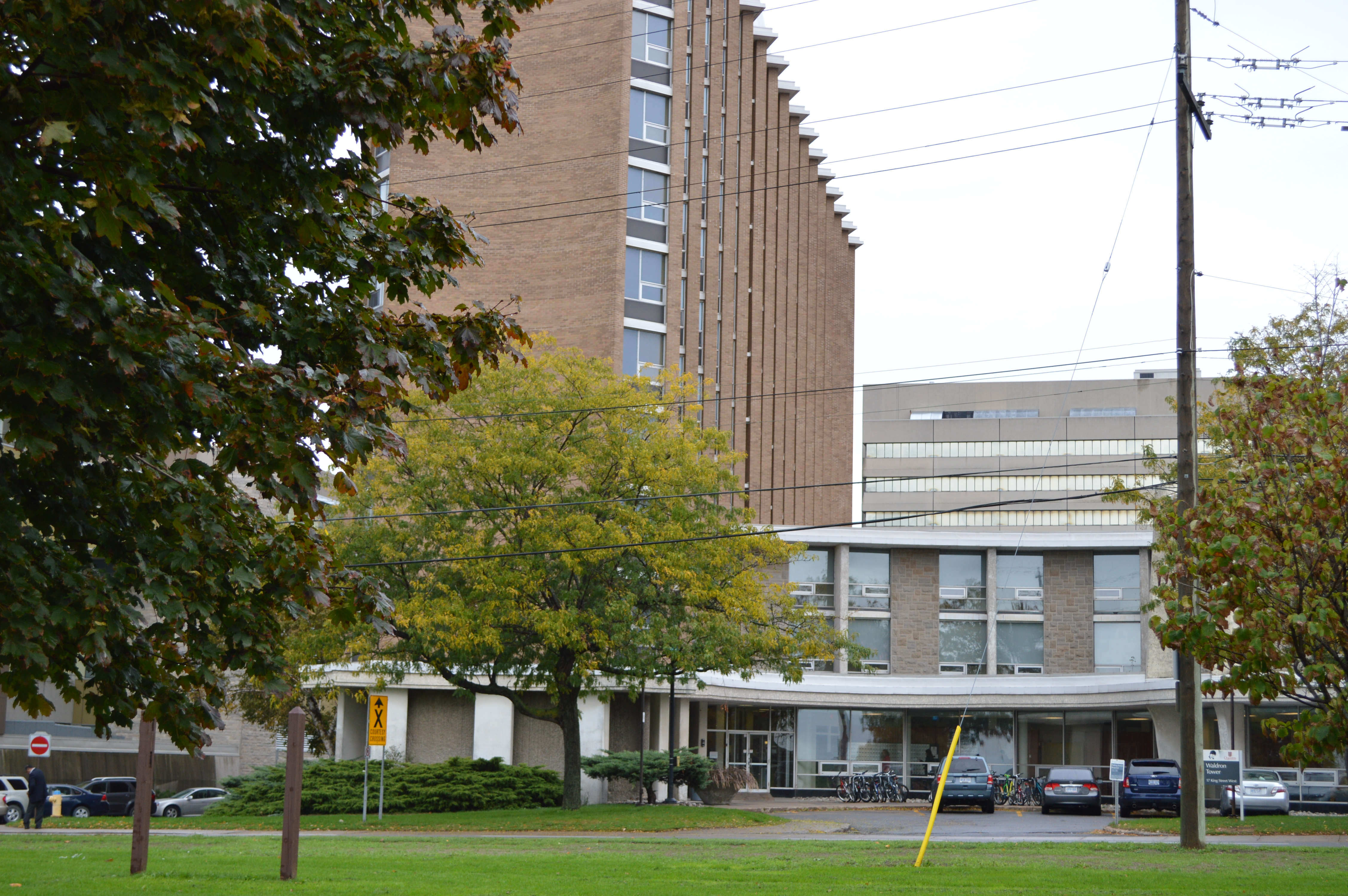 Waldron Tower of Queen's University in Kingston, Ontario, Canada. In the foreground is MacDonald Park.